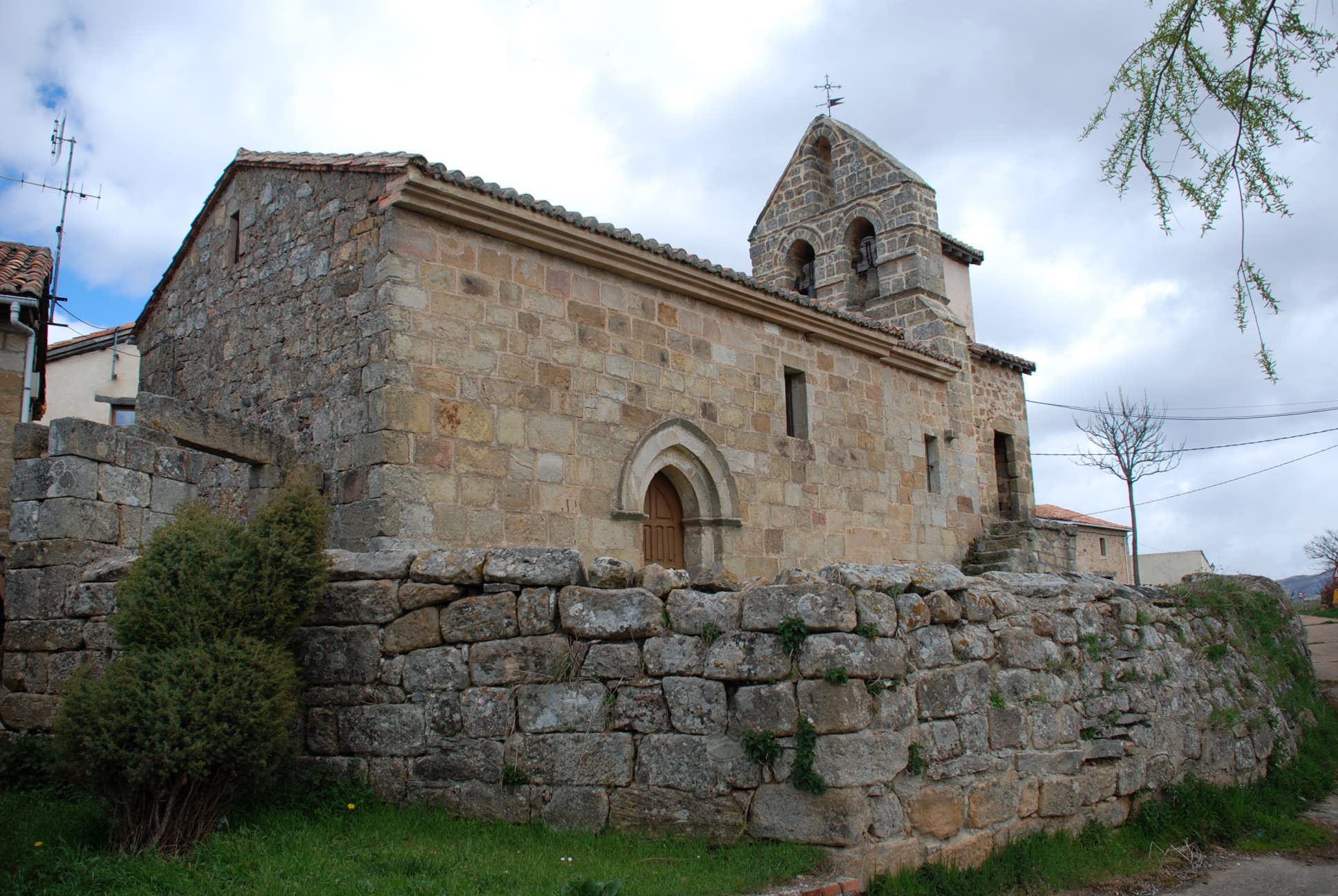 Church of San Román in Renedo de Zalima (Palencia, Castile and León).